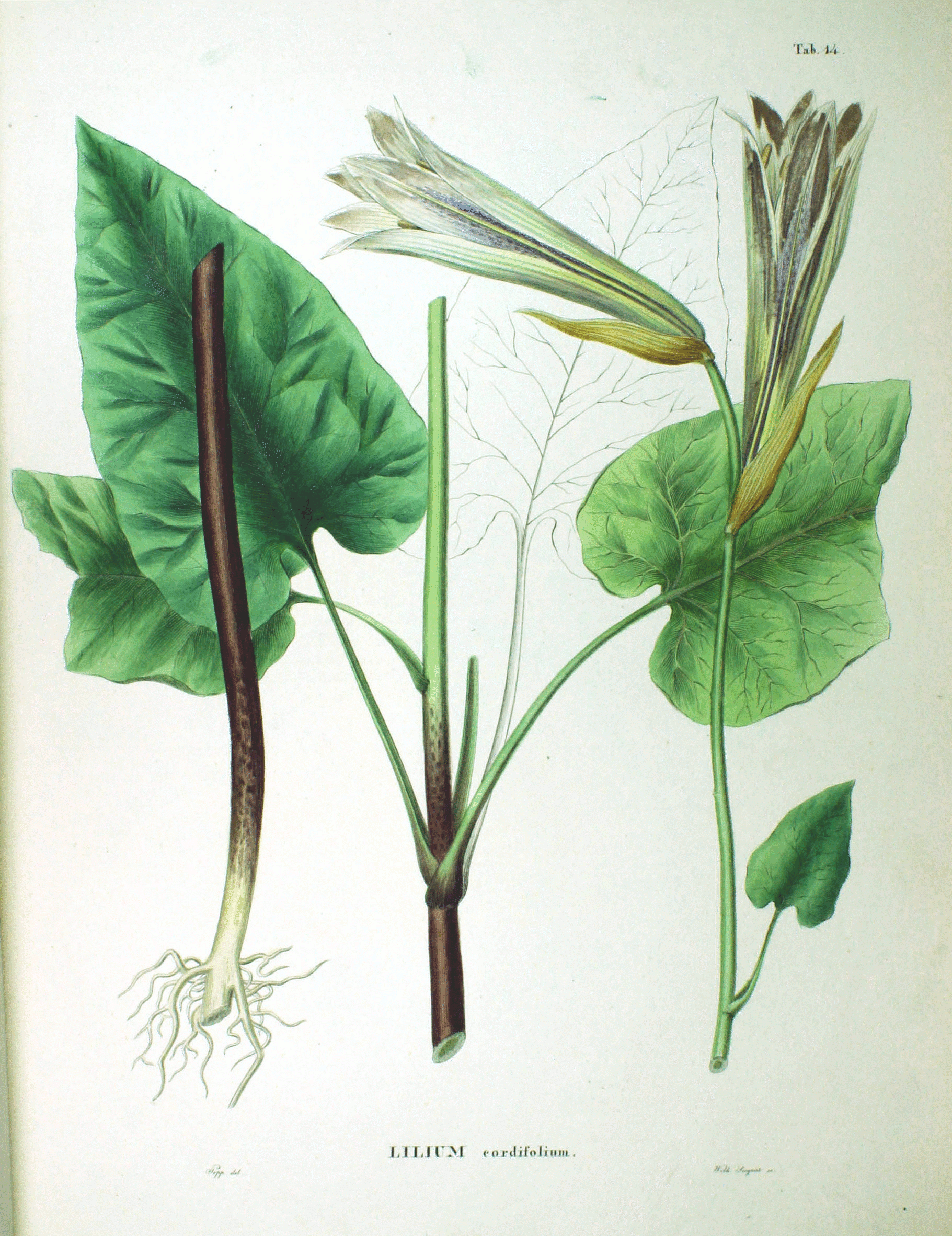 Plate from book